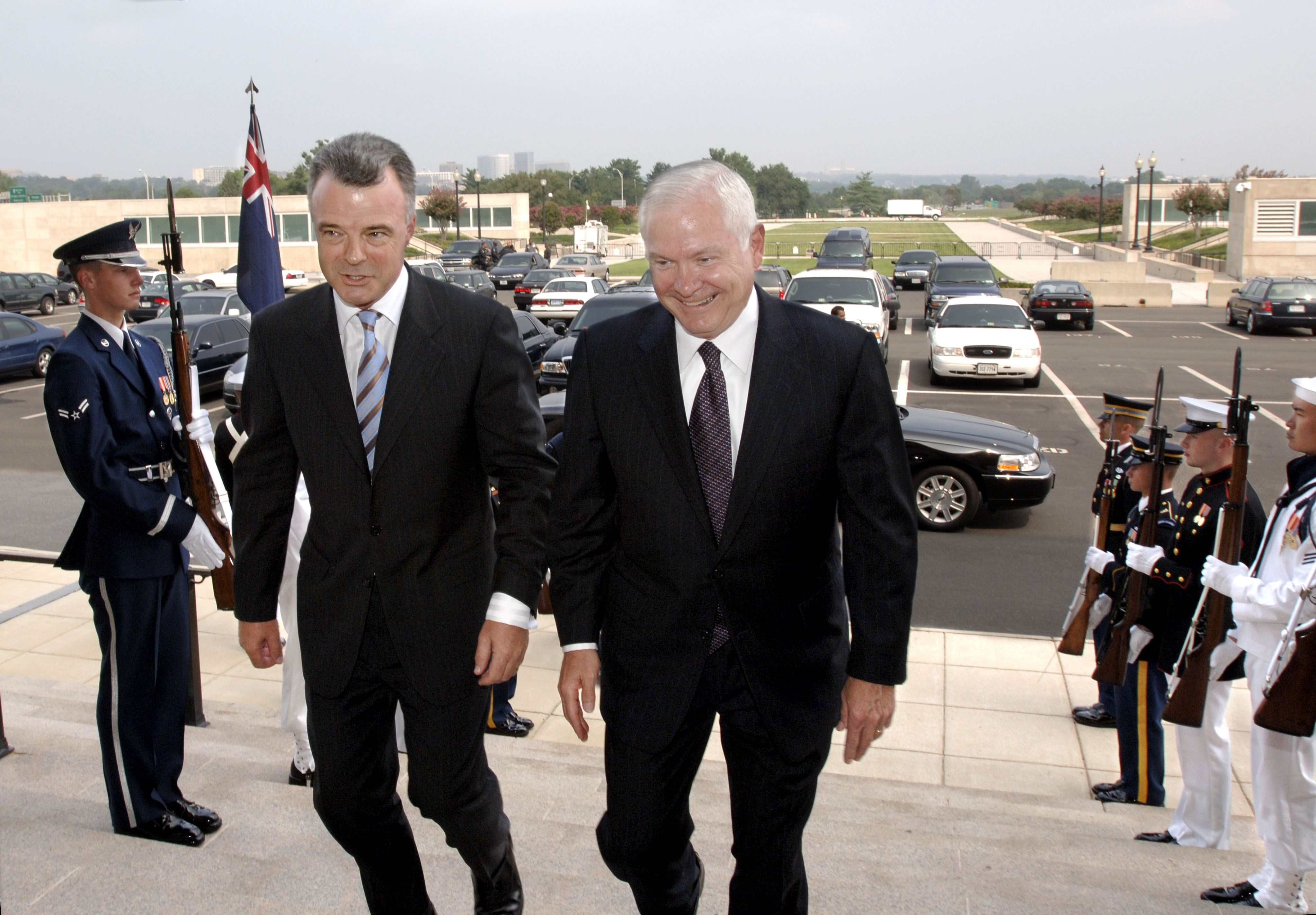 Australian Minister for Defense Brendan Nelson (left) arrives at the Pentagon for a luncheon meeting with Secretary of Defense Robert M. Gates (right).